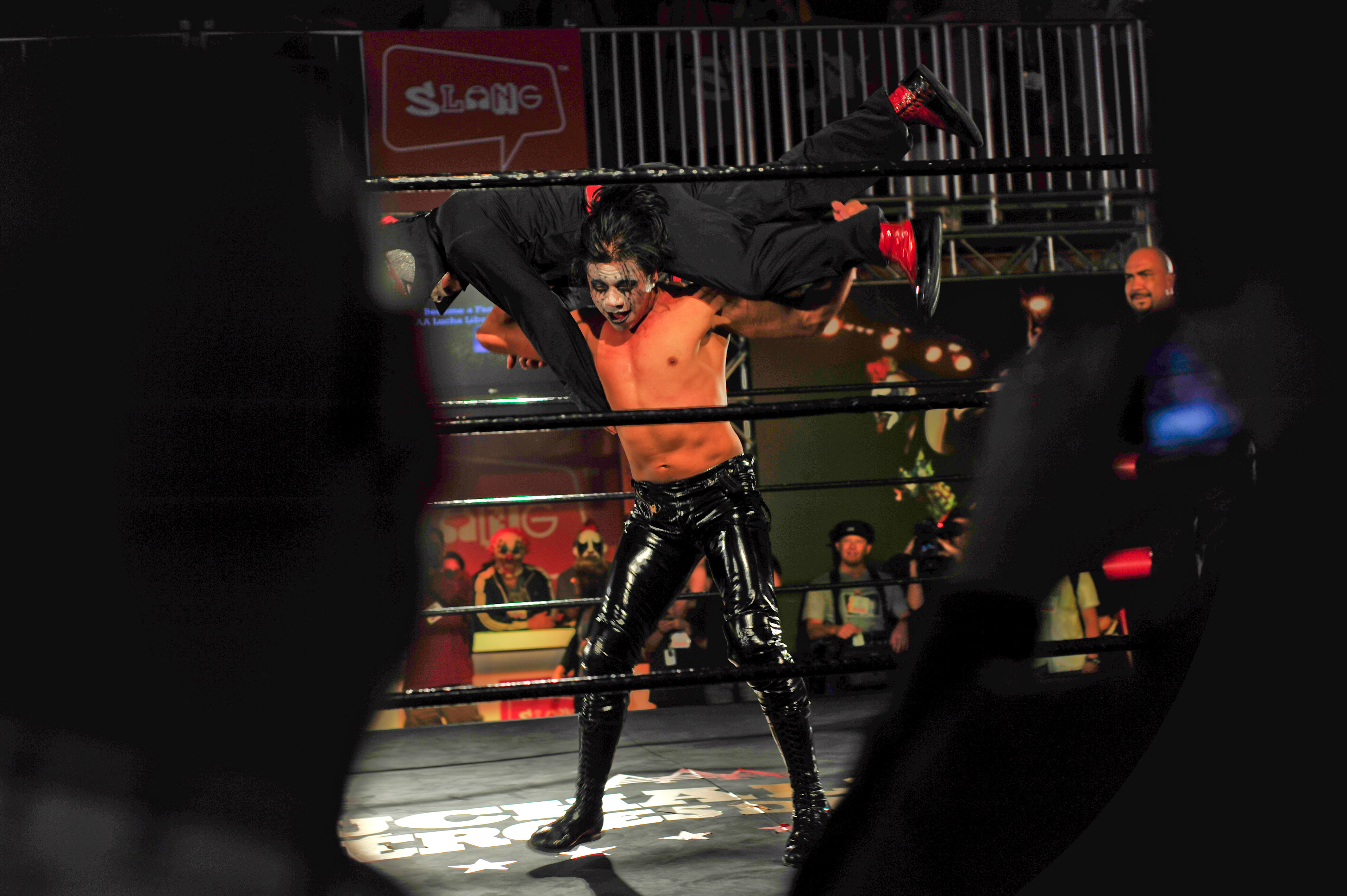 Mini Charly Manson lifting Octagincito in the air during AAA's E3 show